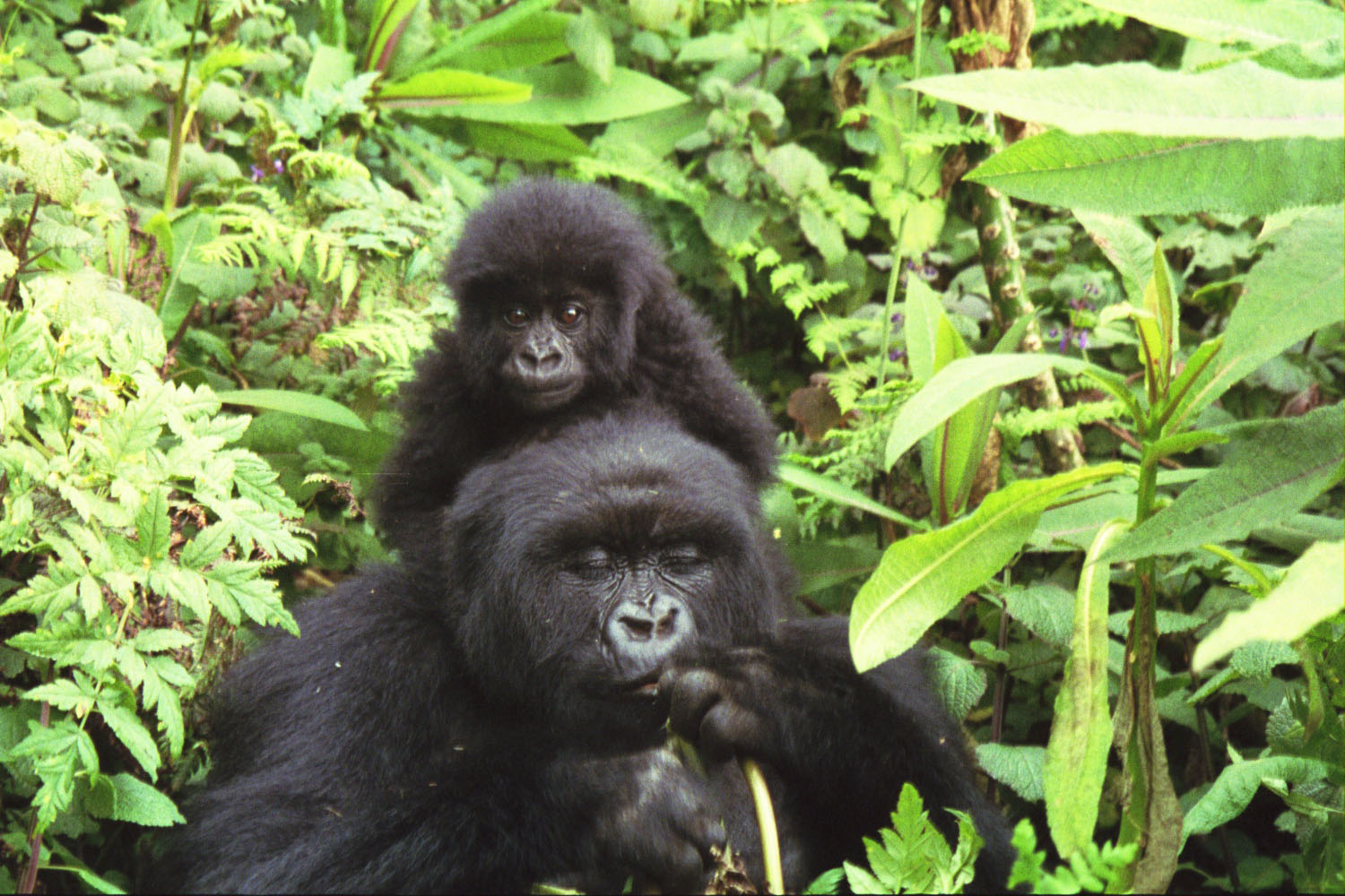 Parc National des Volcans, Rwanda. August 4, 2005. Gorilla Mother and Baby - for an infant gorilla, Mama is food, transport, and playground. Credit: by Sarel Kromer.